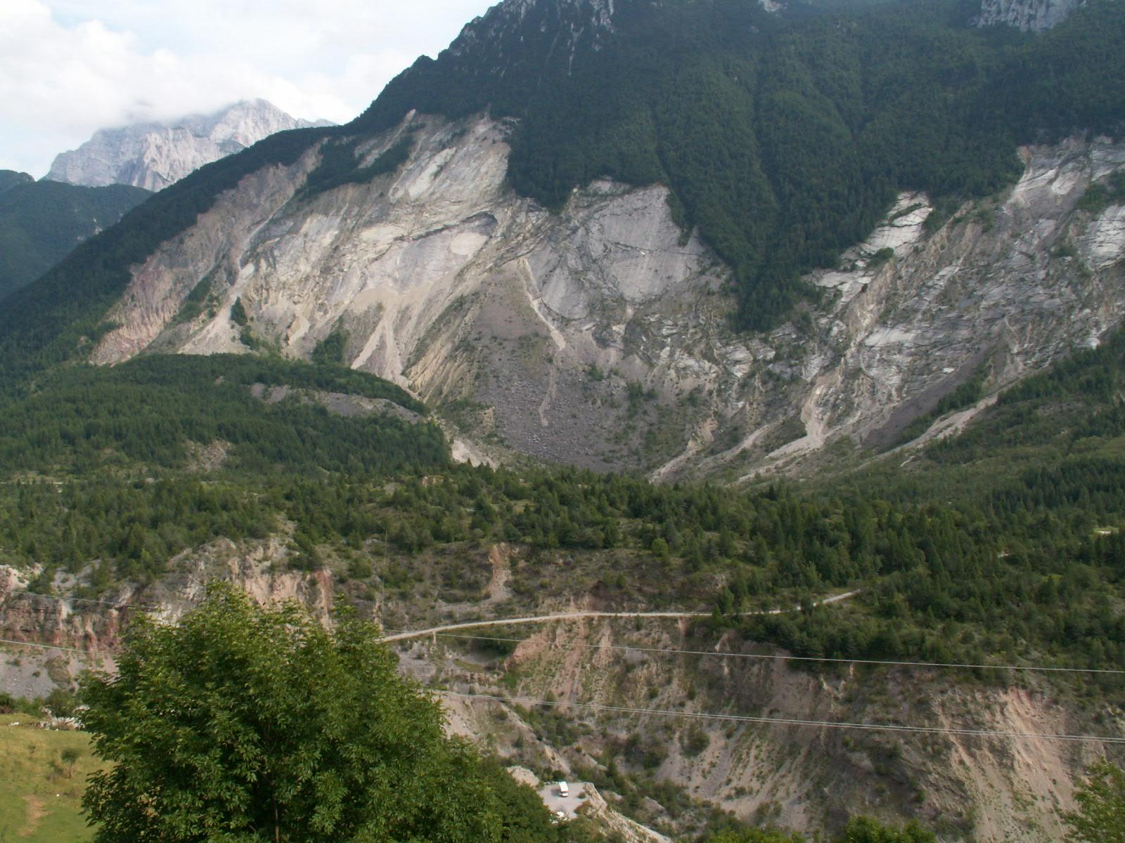 You can see the extent of the landslide of Mount Toc, the catastrophe of Vajont